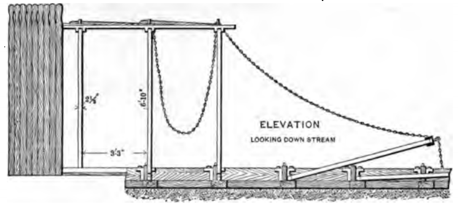 Needle dam - view along the river (downstream)